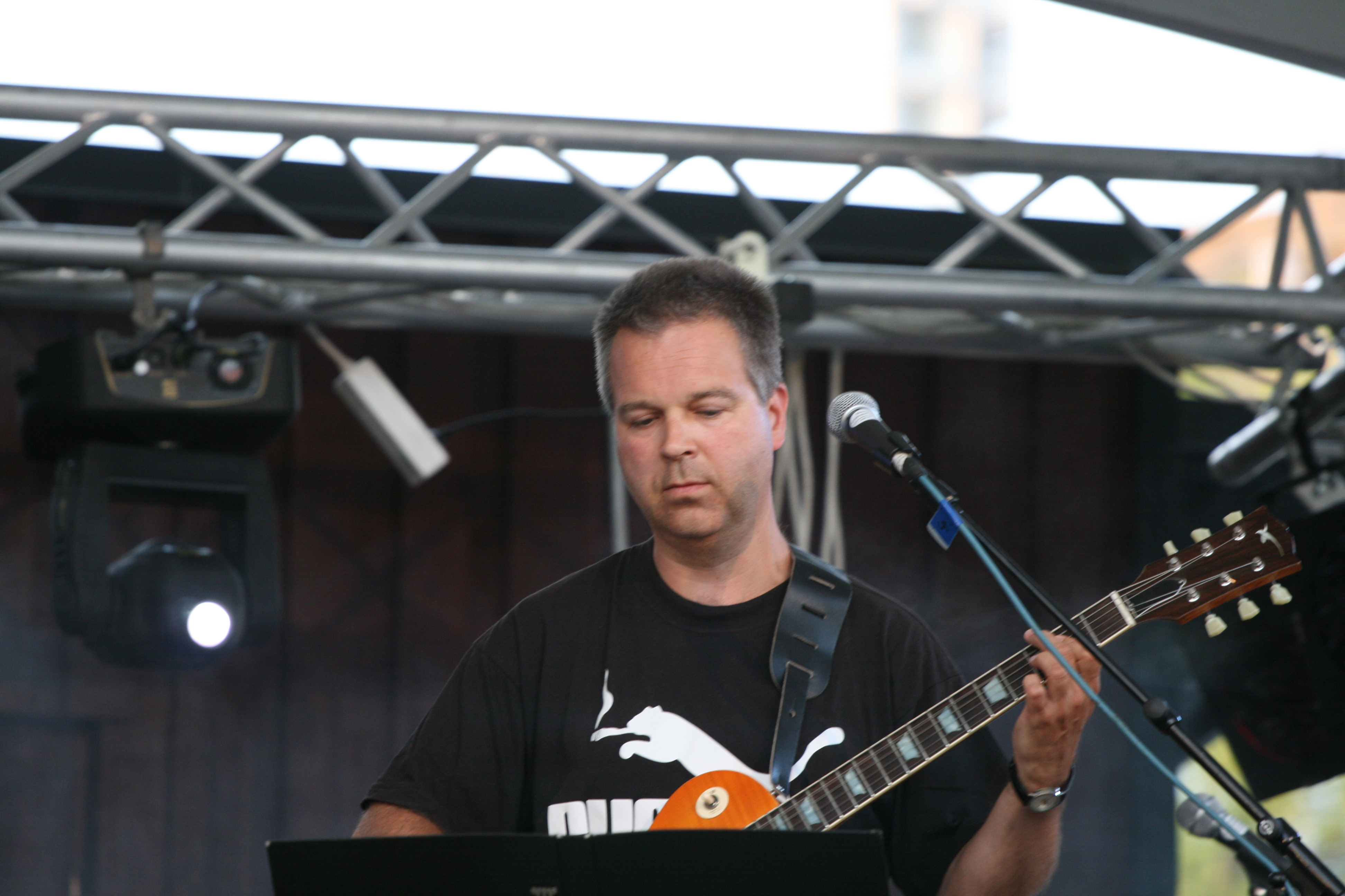 Juha Lanu Finnish player